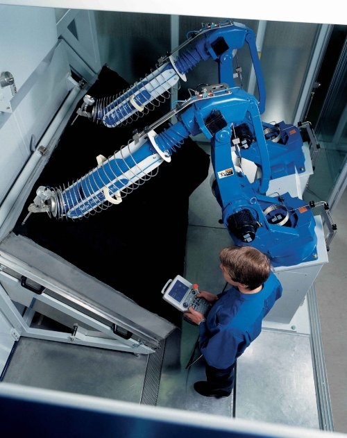 A water jet cutter: a tool capable of slicing into metal or other materials using a jet of water at high velocity and pressure, or a mixture of water and an abrasive substance.